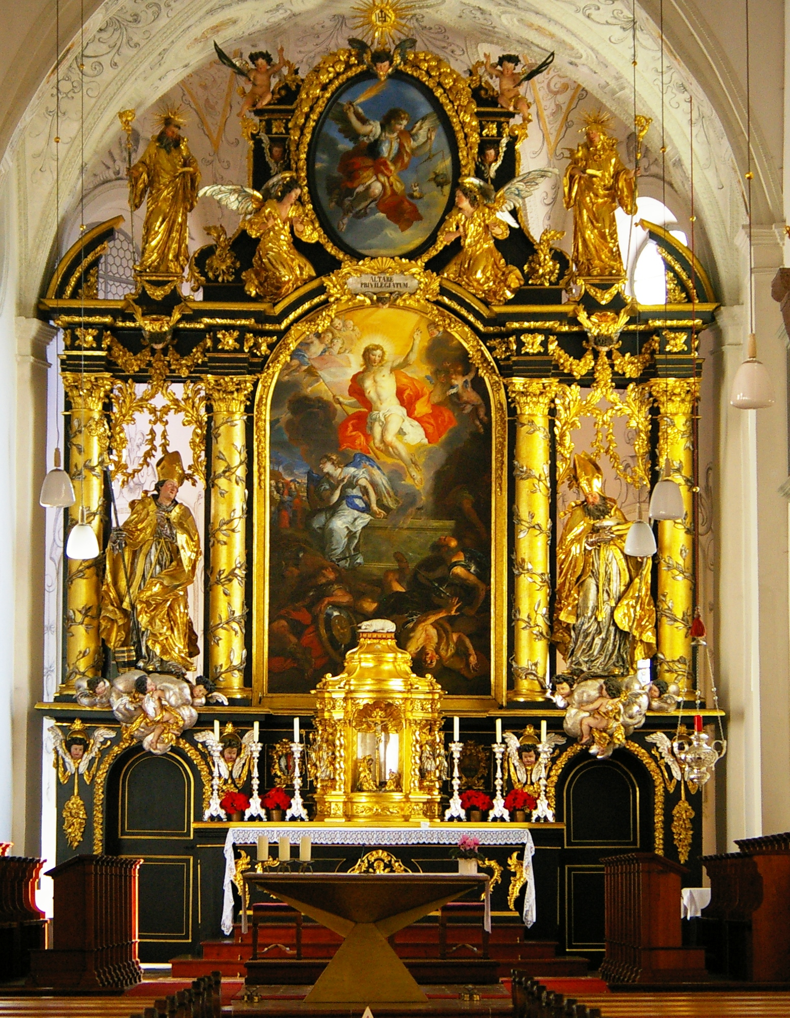 altar Michaelbeuern abbey Johann Michael Rottmayr